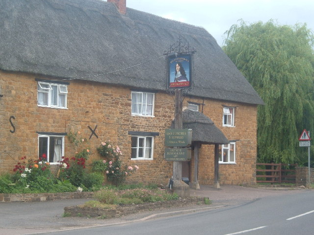 Duke of Cumberland's Head pub, Clifton, Oxfordshire, seen from the southwest